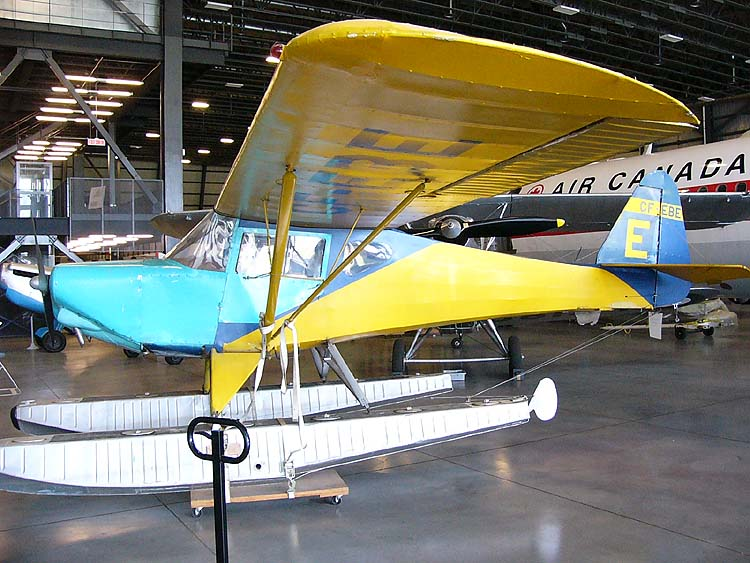 I took this photo of a Fleet Canuck (CF-EBE) on floats at the Canada Aviation Museum on October 9th, 2006.